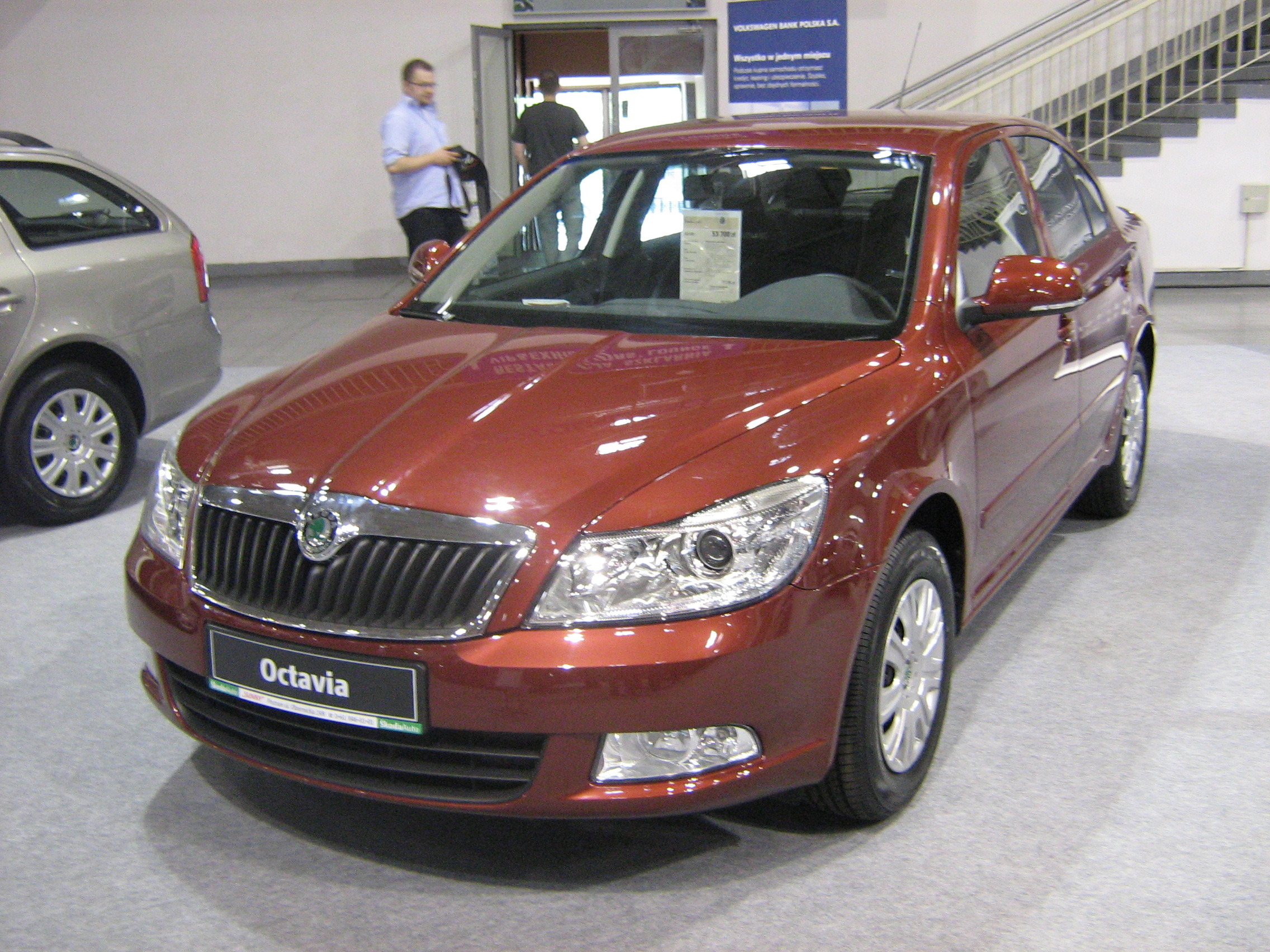 Škoda Octavia II Facelift Liftback front - PSM 2009 in Poznan.